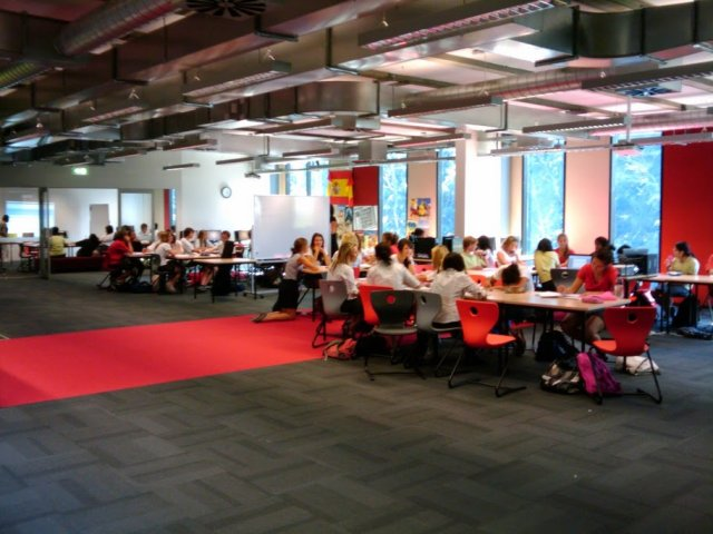 Miro Learning Common at Albany Senior High School, New Zealand. A learning common is a large (5 classroom equivalent) space, within which most of the teaching and learning occurs at Albany Senior High School. Subjects requiring specialist spaces like art, music, drama and technology still have their own spaces, but subject that just require a learning space (like English, mathematics, geography and history) are taught in the commons. The lack of internal walls allows maximum flexibility when it comes to furniture layout, access to technology, team-teaching, multi-levelling and cross-subject instruction.